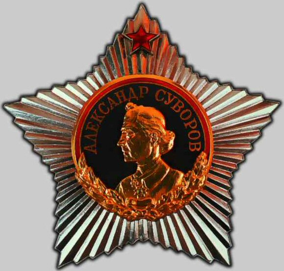 Order of Suvorov 1st class, 1942 - 2010.